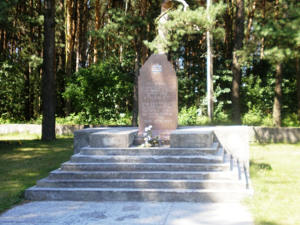 The monument for killed Jew in Jonava, Lithuania